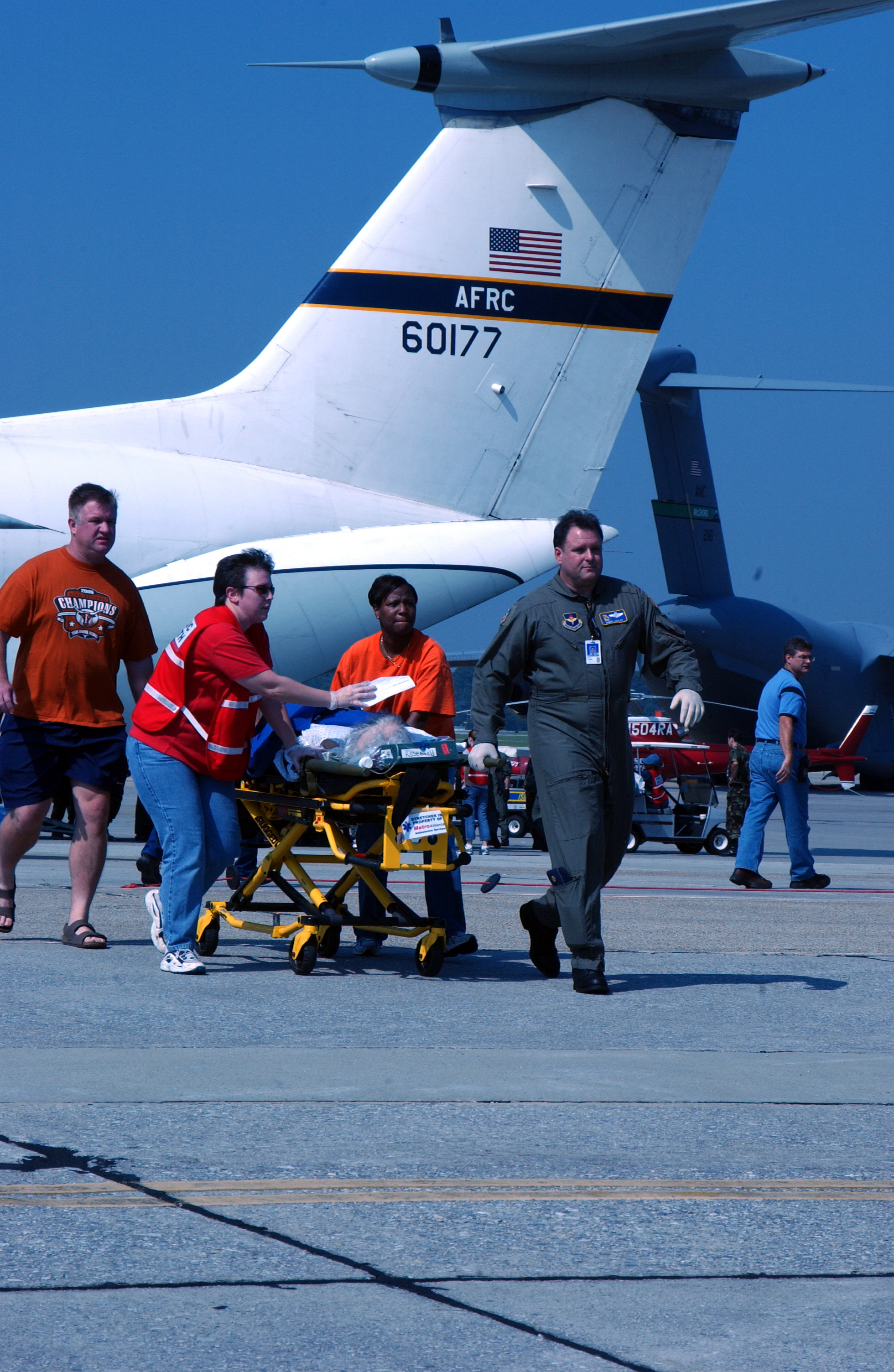 Volunteers from Dobbins Air Reserve Base, Ga., shuttle a patient who arrived there on a C-141 assigned to Air Force Reserve Command's 445th Airlift Wing, Wright-Patterson Air Force Base, Ohio. About 100 patients were airlifted to Dobbins for transportation to hospitals in Atlanta, one of 17 cities in the country taking 2,500 Hurricane Katrina victims. At Dobbins, the patients went to the 80th Aerial Port Squadron building where Veterans Administration medical people assessed their conditions before they were transported by ambulance to one of 38 Atlanta hospitals